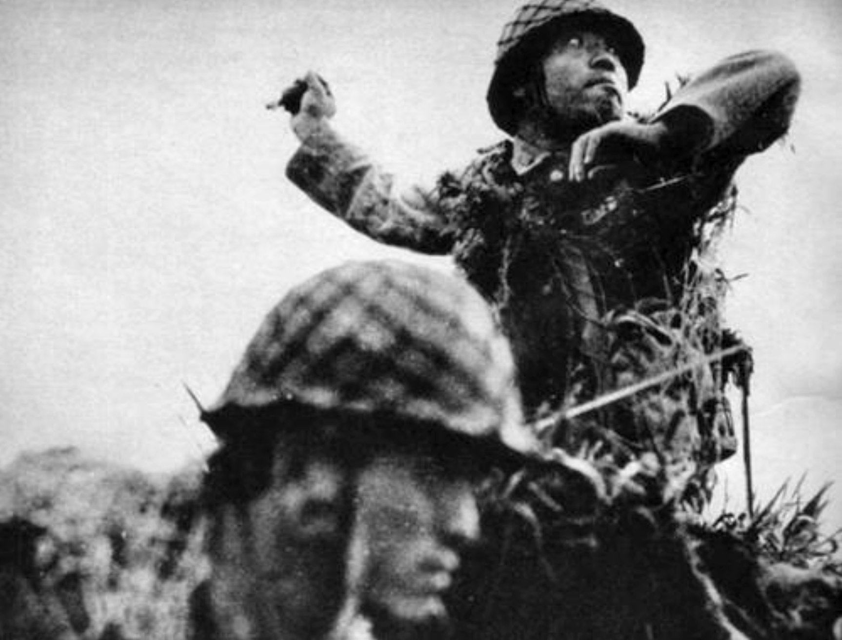 A Japanese soldier is throwing a Type 91 grenade, Solomons, 1942